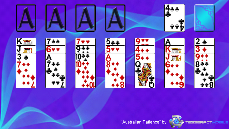 This image is a screenshot of the solitaire game "Australian Patience". More information about this game or this photo can be found on this website